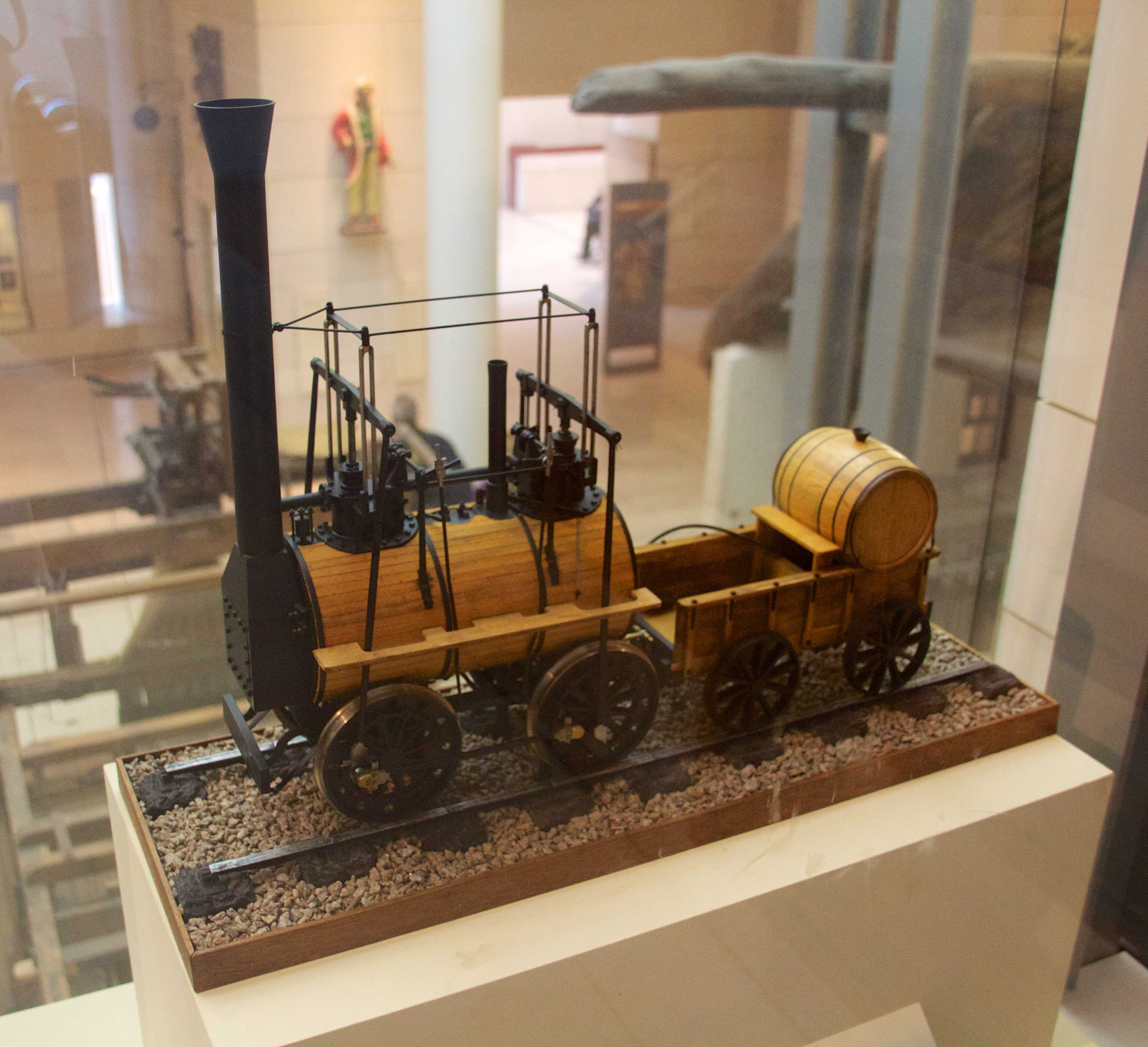 Model of the first locomotive built in Scotland in 1831, designed by George Dodds and built by Murdoch, Aitken & Co of Glasgow for the Monkland & Kirkintilloch Railway. It was similar to George Stephenson's locomotives on the Stockton and Darlington Railway in England, but with a more efficient tubed boiler. T.1998.106. At the National Museum of Scotland, Edinburgh.